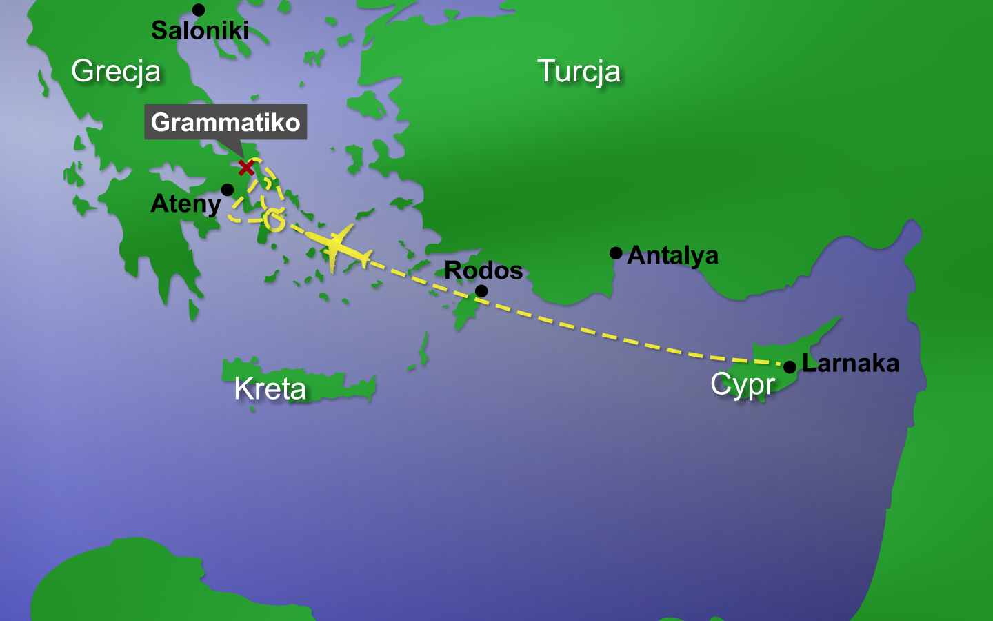 Map of Helios Airways Flight 522. Helios Airwyas Flight 522, crashed on August 14, 2005 near the community of Grammatiko in Greece. The map shows, how the flight proceeded. First, the autopilot controled the airplane in the direction of Athens airport. Then the airplane flew to the south and flew loops over the Ägais for about three hours. After that, the airplane flew in the direction of Athens airport again, until it crashed nearby Grammatiko.